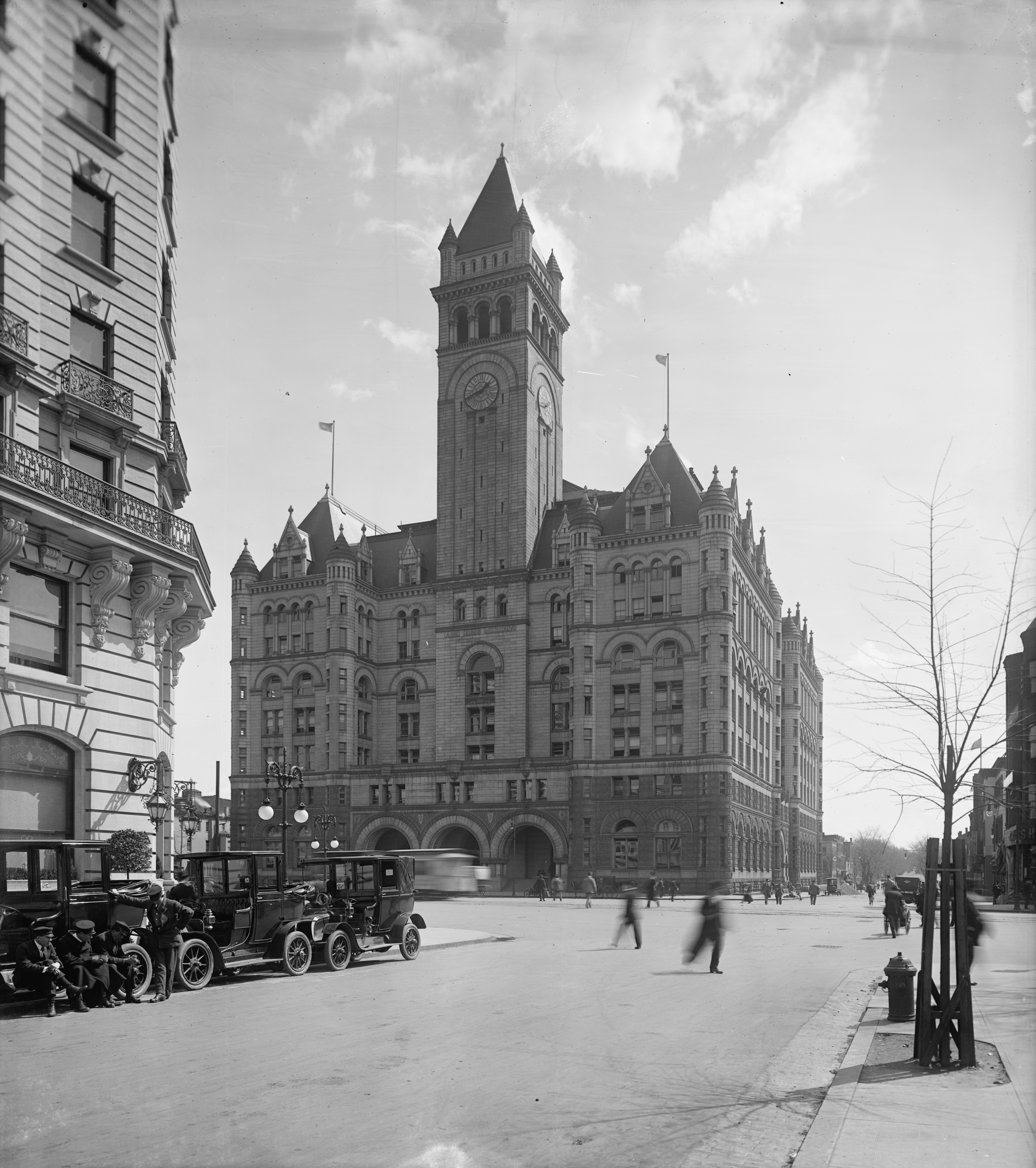 Old Post Office Pavilion located at the intersection of 12th Street and Pennsylvania Avenue, NW in Washington, D.C. The building is listed on the National Register of Historic Places and is a contributing property to the Pennsylvania Avenue Historic District. The building on the far left is The Raleigh Hotel.